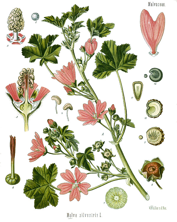 Illustration of MALVA silvestris L. 59 (Malva sylvestris L., high mallow)